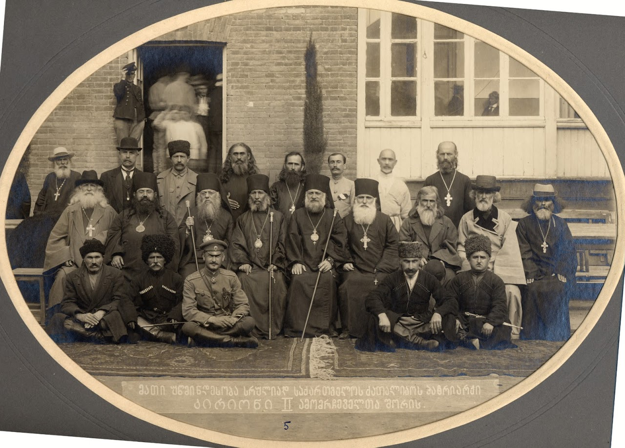 First Georgian orthodox church concil